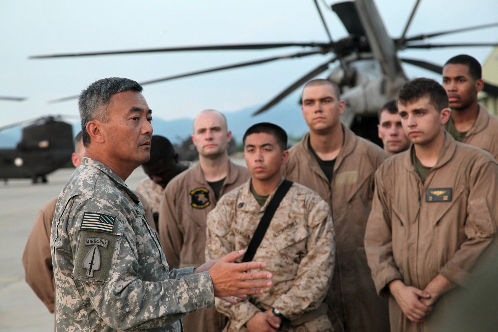 U.S. Army Brig. Gen. Michael Nagata welcomes Marines from the 15th Marine Expeditionary Unit that are replacing the U.S. Army 3rd Combat Aviation Brigade, in the delivery of humanitarian assistance and with the evacuation of flood victims as part of the flood disaster recovery effort in Pakistan, Khyber Pakhtunkhwa Province, Pakistan, Aug. 13.